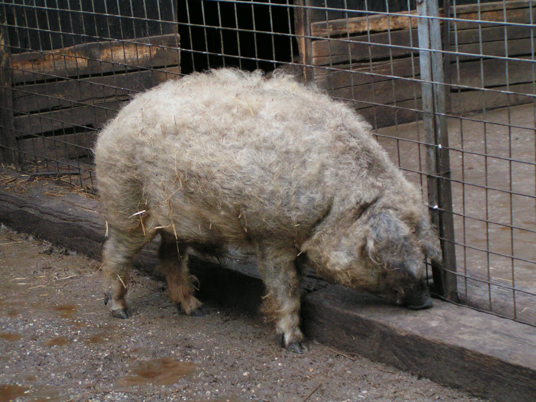 Wool-pig in Pamhagen zoo